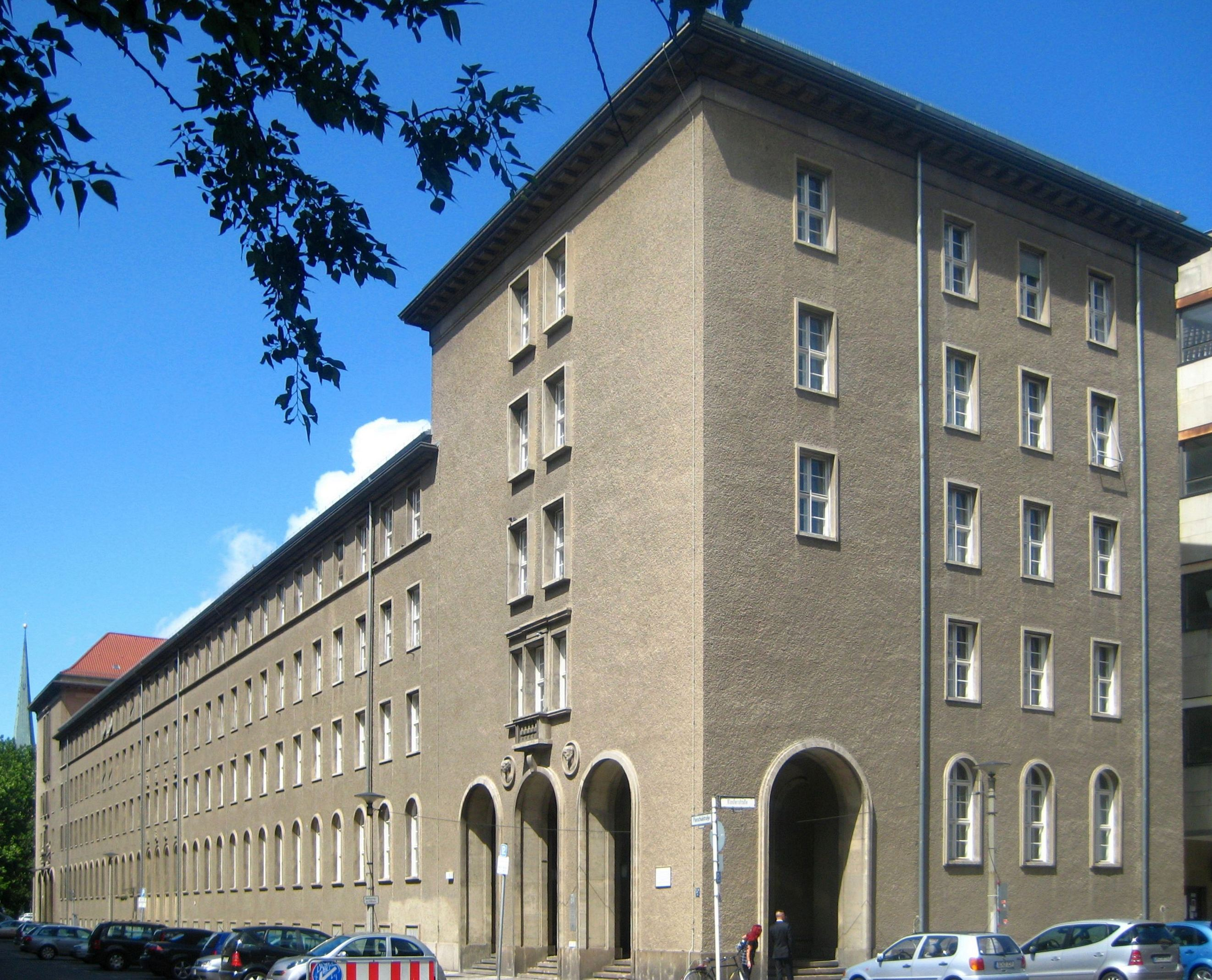 "Neues Stadthaus" ("New City Hall") at Parochialstraße, corner of Klosterstraße in Berlin-Mitte; built 1936-1937 by architects Franz Arnous and Kurt Starck for the municipal fire insurance of Berlin, it was later used by the city administration. It was the first building erected as part of the municipal "Administration Forum" the Nazis planned for the Molkenmarkt neighborhood around Altes Stadthaus. In GDR times, East Berlin's magistrate resided here. It is now seat of the register office of the borough of Mitte. The building is landmarked.